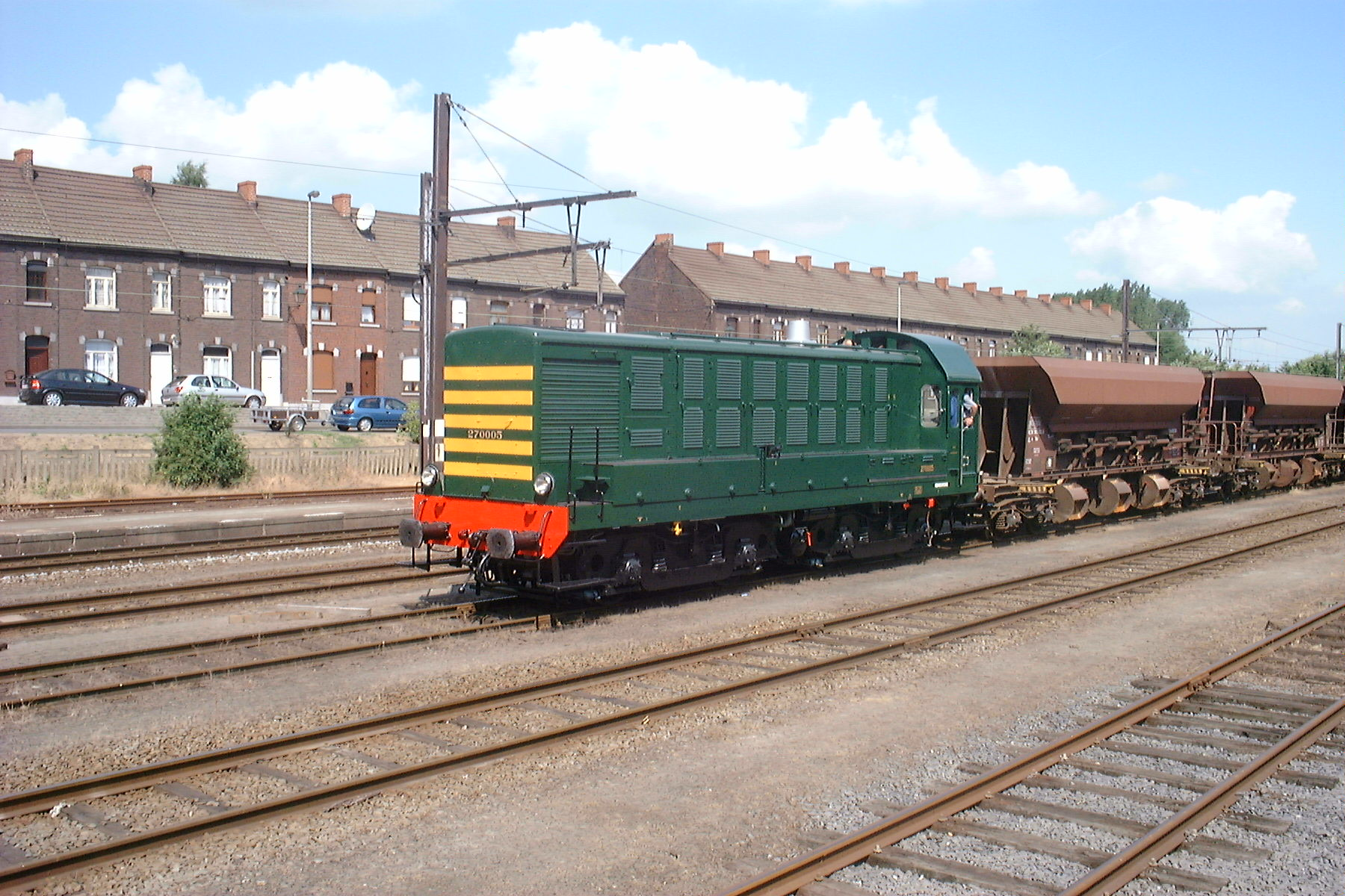 The Class 70 (formerly known as 270), introduced 1954, was one of the first diesel locomotives in Belgium. The American-style diesel-electric units were active mostly around Antwerp. The class was retired 2002; No 7005 lives on in preservation.